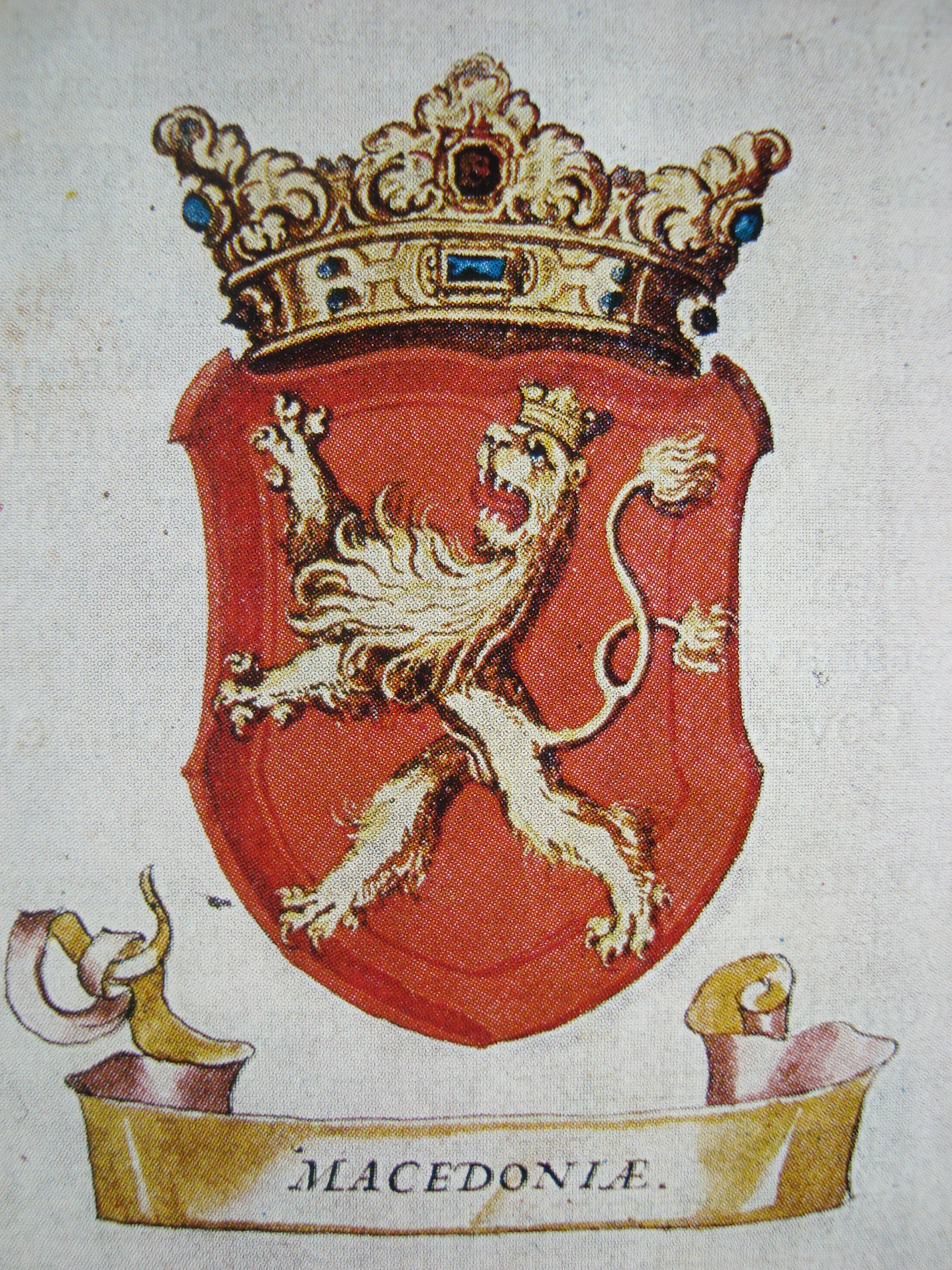 The coat of arms of Macedonia from 1620.